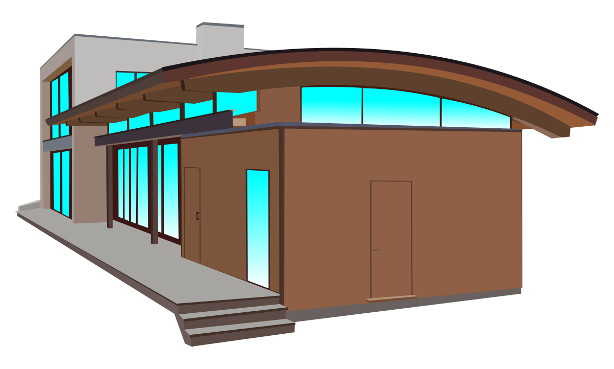 Segmental vaults: 21st Century Building style in the United States